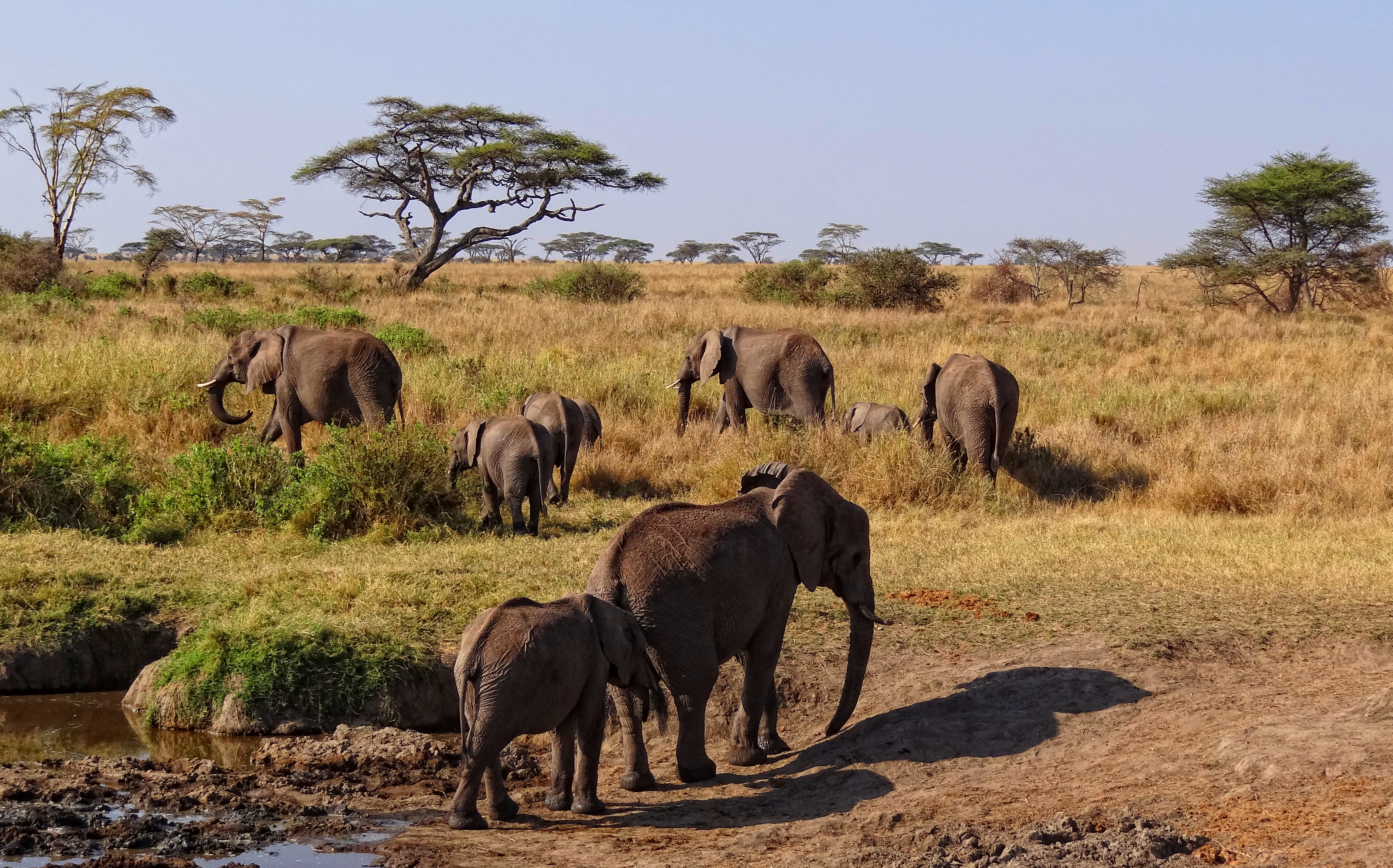 A herd of elephants in Serengeti National Park, Tanzania.